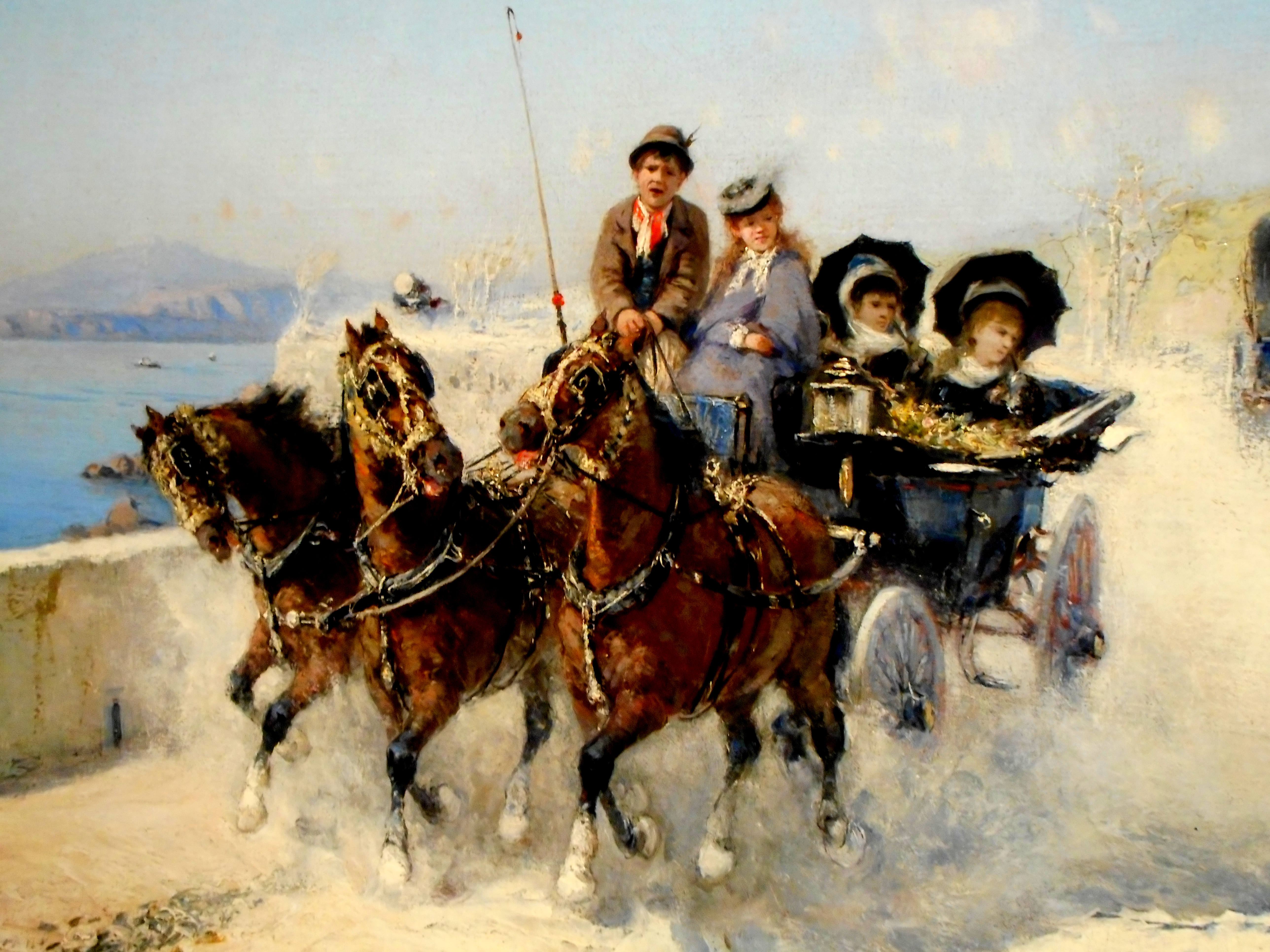 "Carriage" - Detail of the painting "Route de Torre Annunziata à Pompéi" (about 1874) by Francesco Lord Mancini (Naples 1829-Naples 1905) - Private collection / Courtesy Galleria Bottegantica, Milan, at Exhibition "From De Nittis to Gemito. Napolitain Painters in Paris during the Impressionism" at Zevallos Museum in Naples.